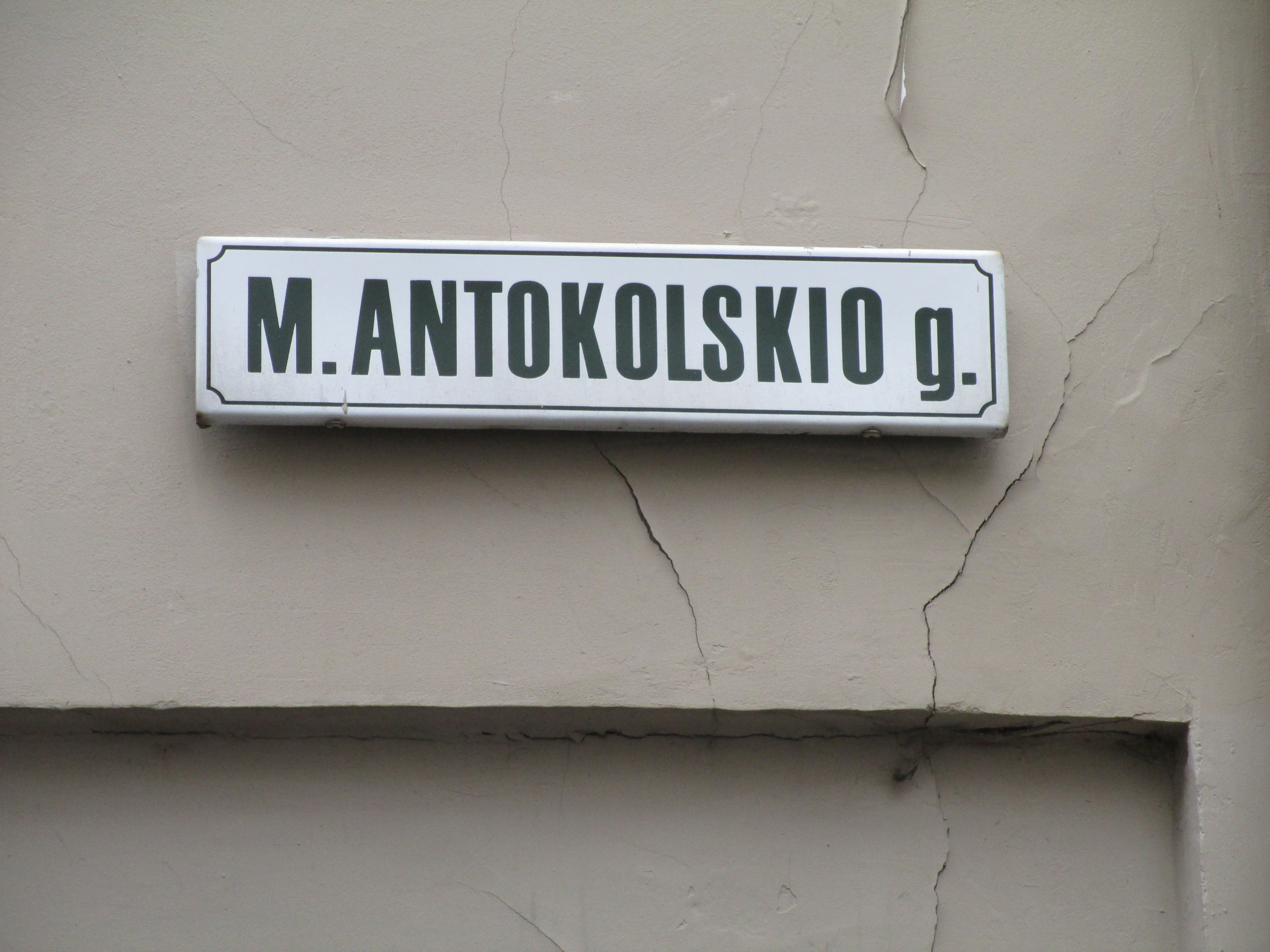 mark antokolski (a jewish painter) str. in vilnius